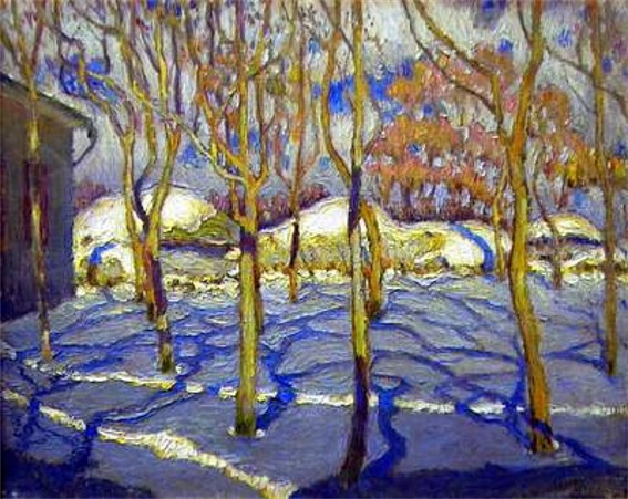 March